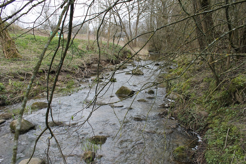 Vitiniai, Klaipėda district, Lithuania